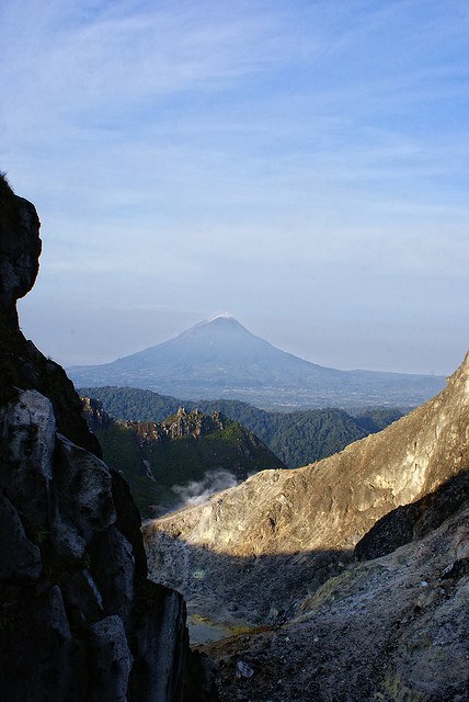 View of Sinabung Mountain from the sleeper of Sibayak Mountain.